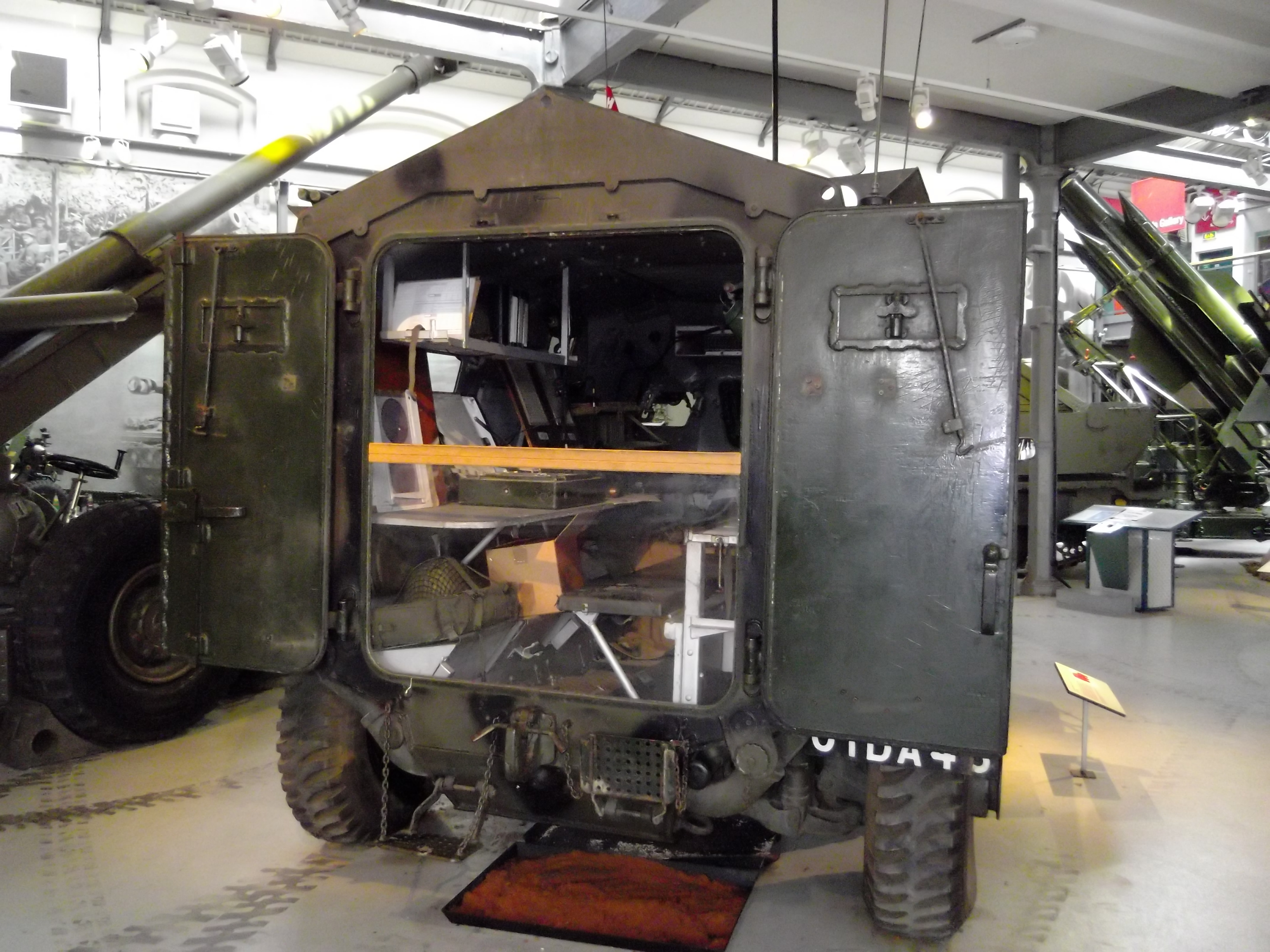 Royal Artillery Museum Woolwich London 155